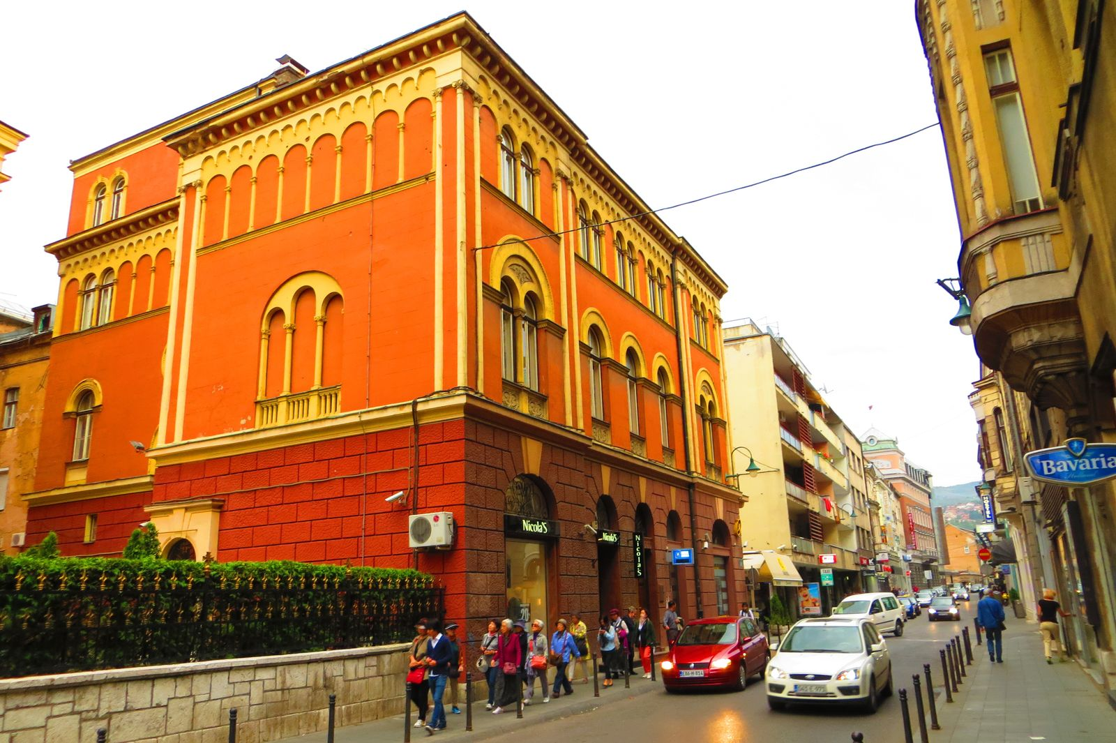 Orthodox Metropolitanate of Dabar-Bosna, Zelenih beretki